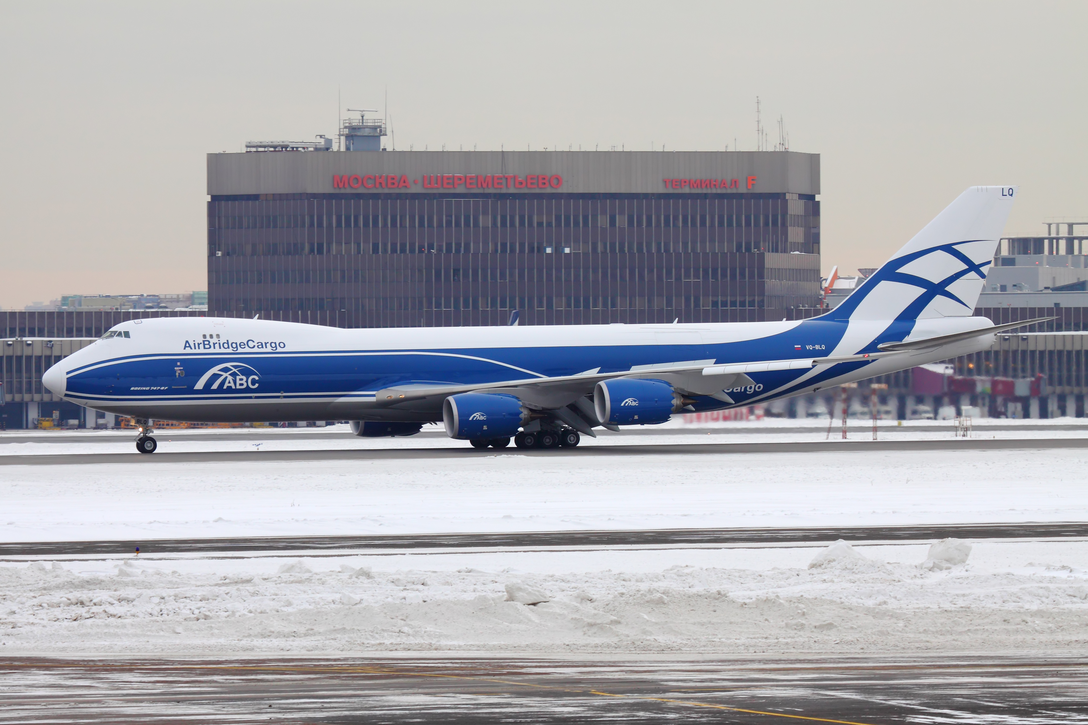 First 747-8 for Air Bridge Cargo arrives to Moscow Sheremetyevo airport.